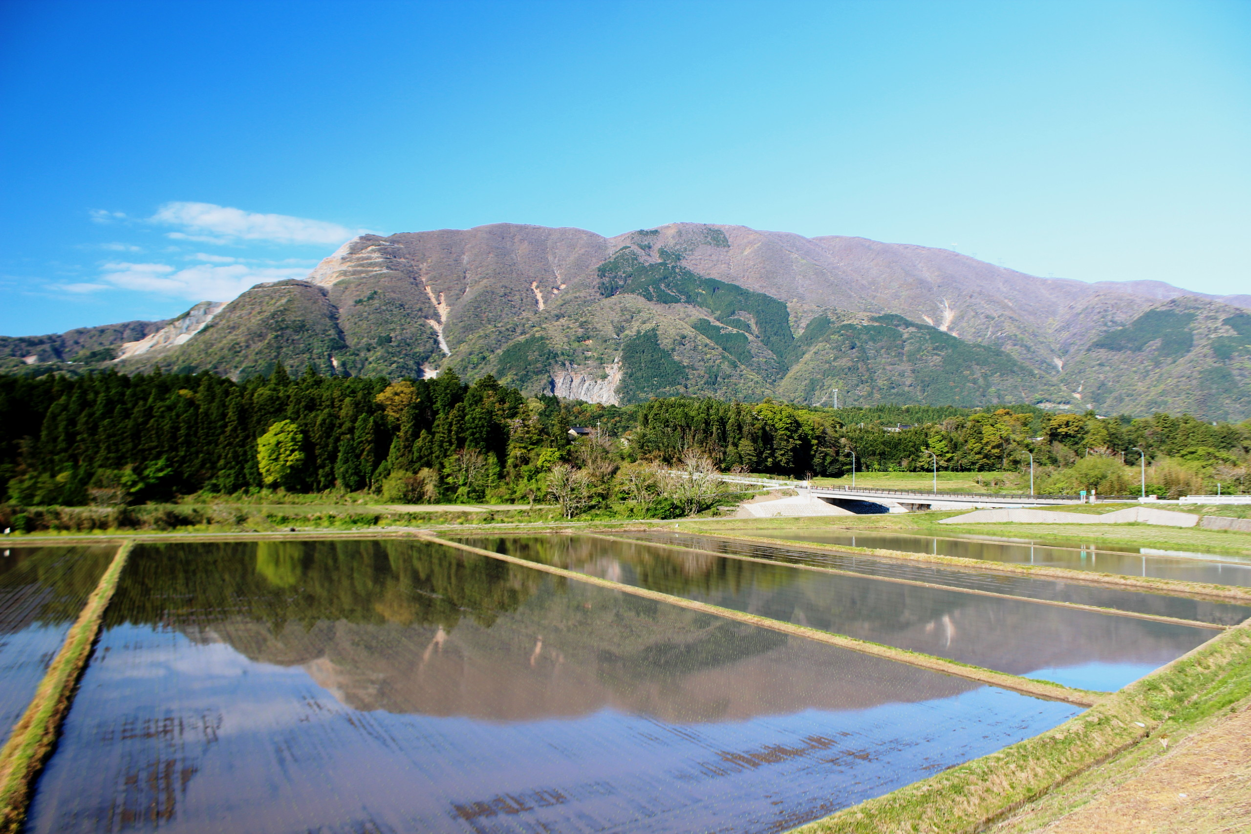 Mount Fujiwara of Suzuka Mountains reflected on paddy field, in Inabe, Mie, Japan.